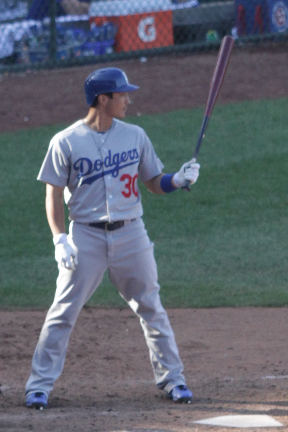 Darwin Barney for the 2014 Los Angeles Dodgers against the 2014 Chicago Cubs at Wrigley Field.